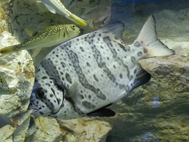 Oplegnathus fasciatus × Oplegnathus punctatus